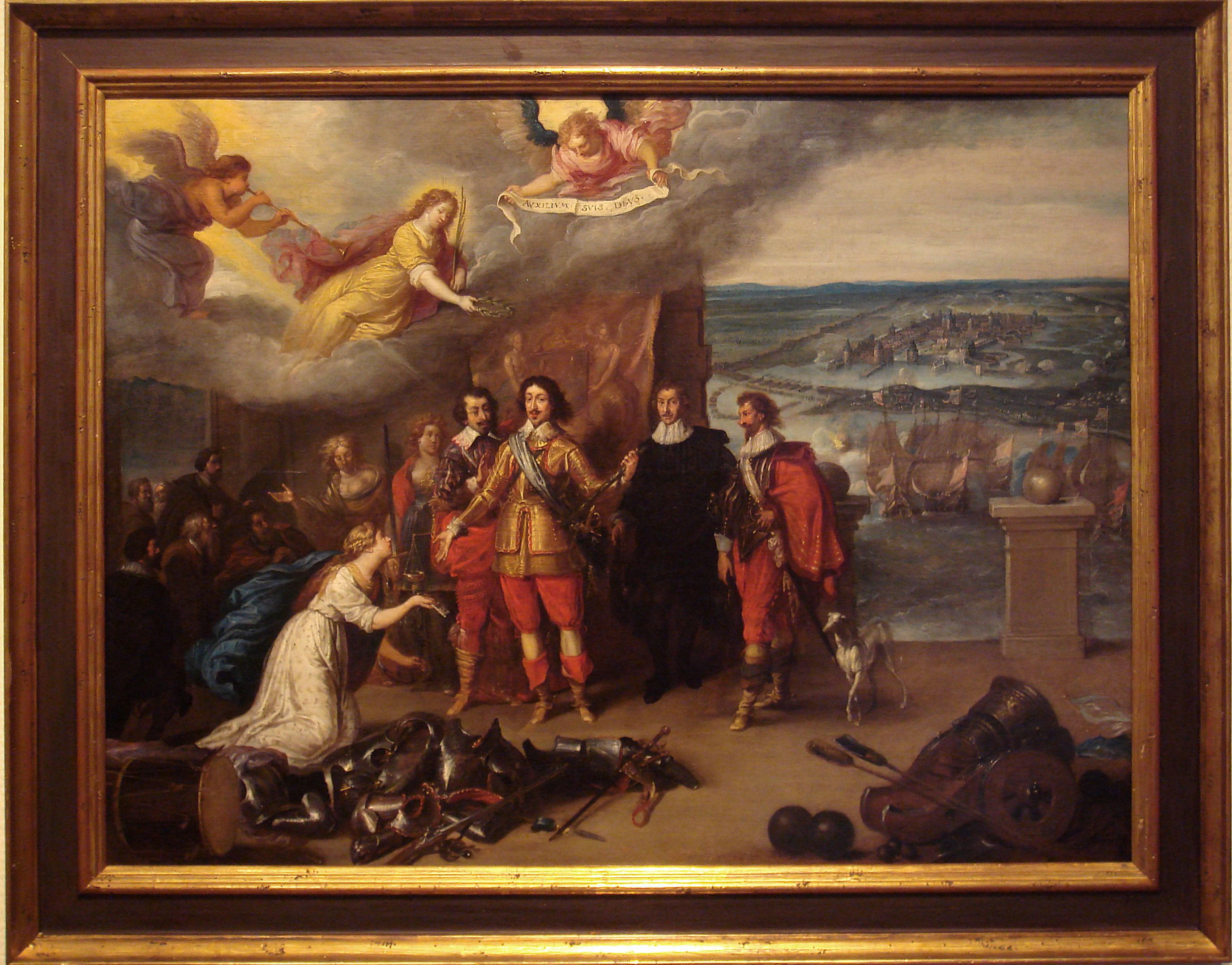 The_surrender_of_La_Rochelle